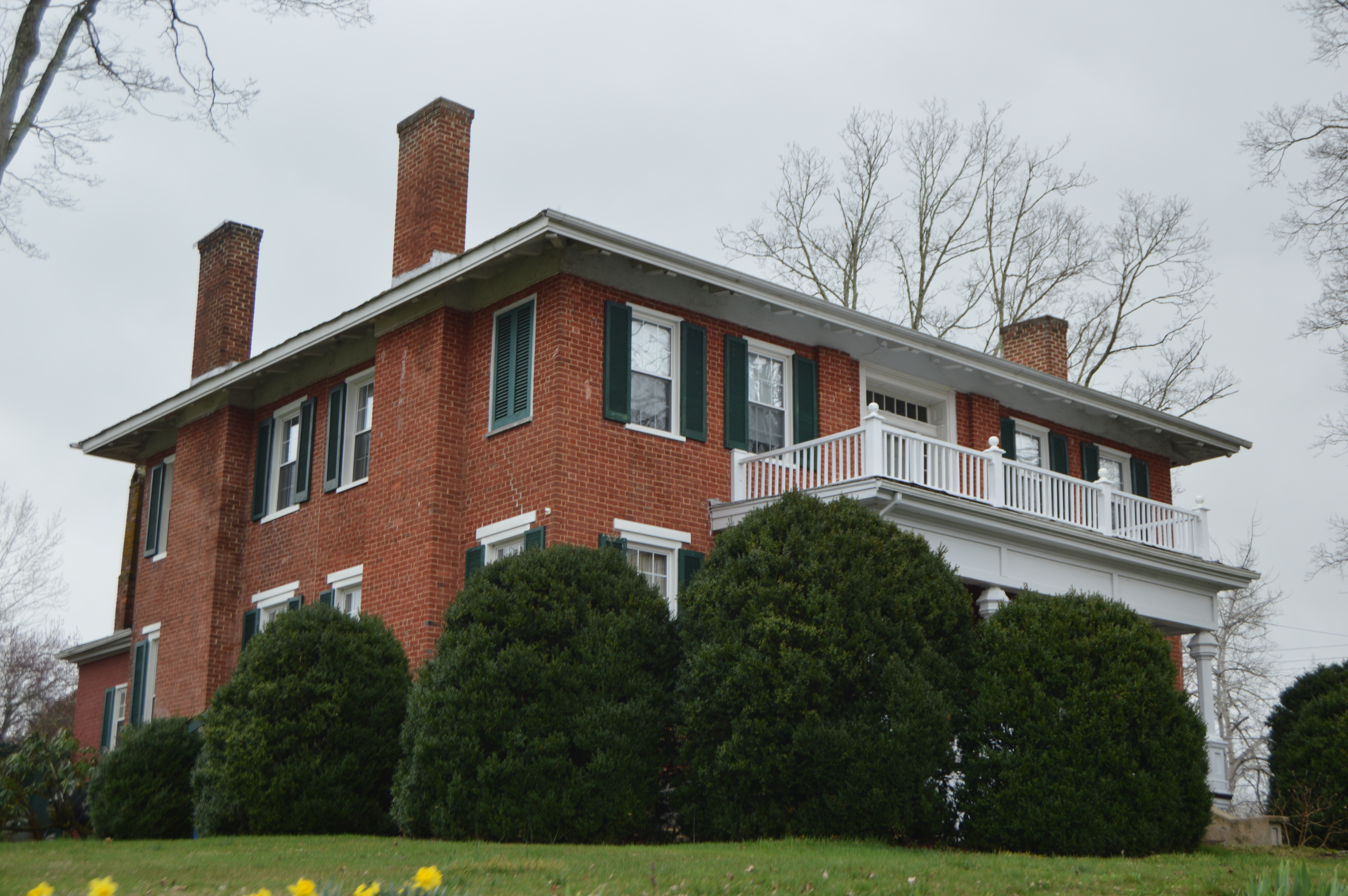 Front and northern side of the Brig. Gen. John Echols House, located on Pump Street at Second Street in Union, West Virginia, United States. Built in 1848, it is listed on the National Register of Historic Places.